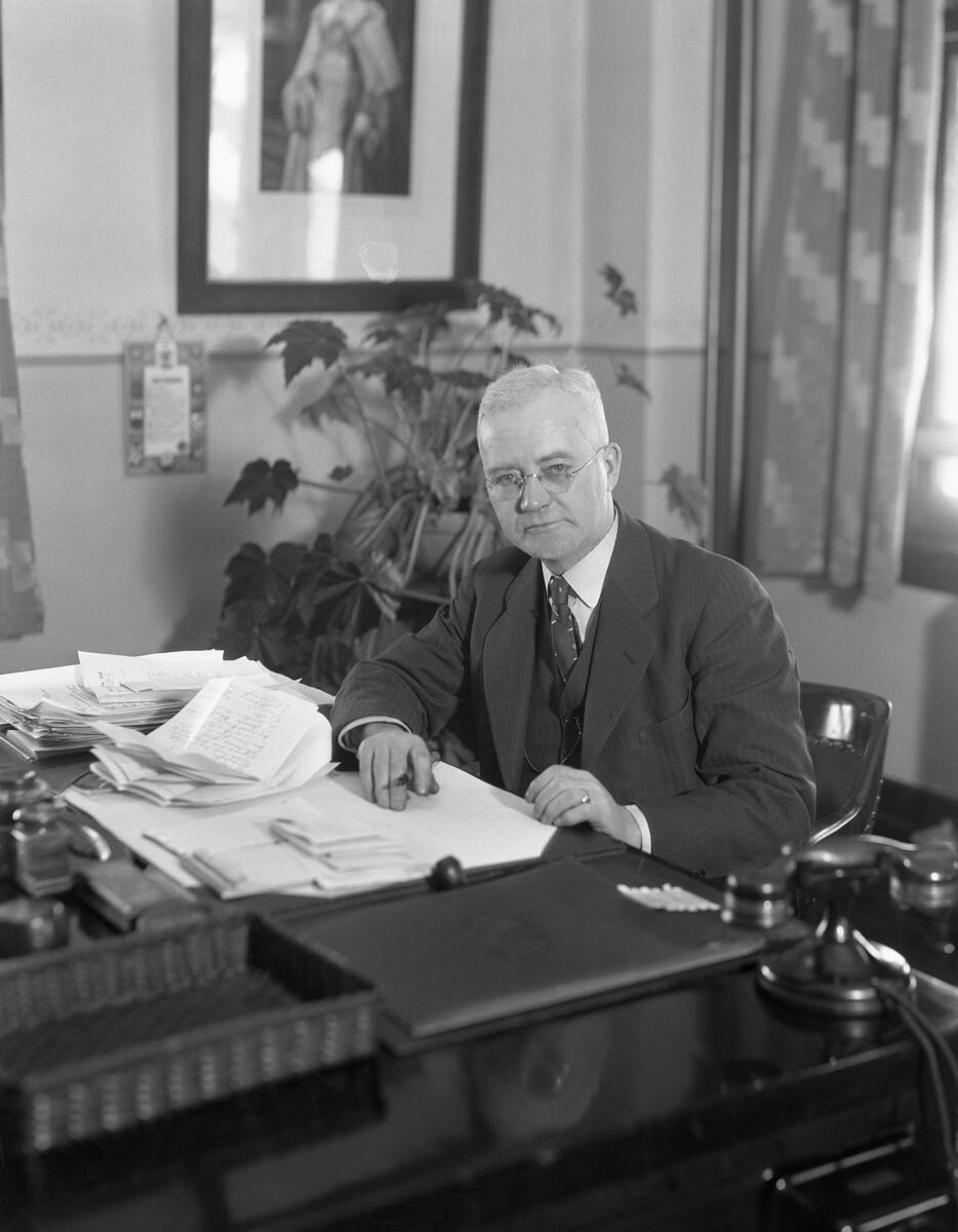 Daniel K. Knott in office.